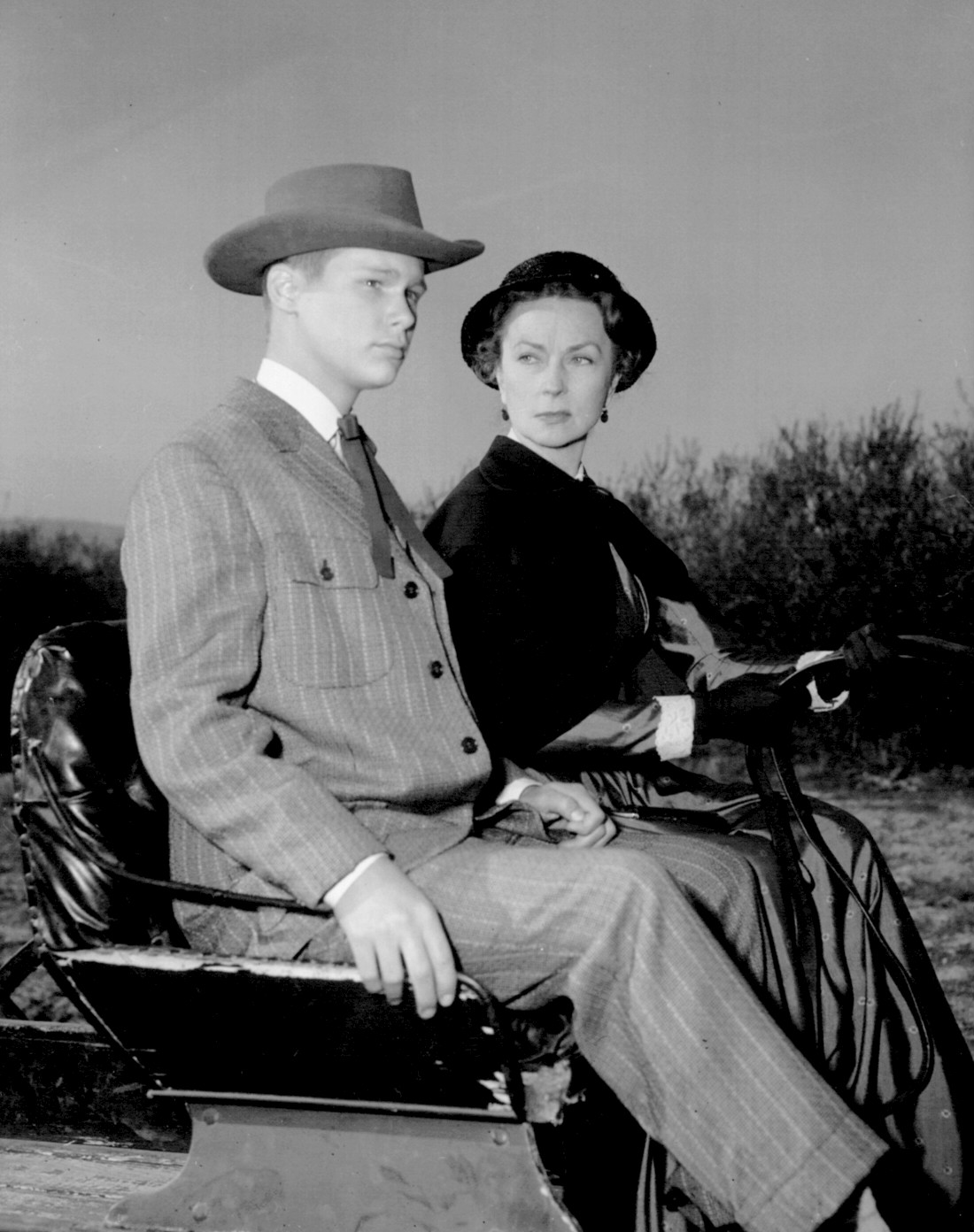 Photo of Brandon deWilde and Agnes Moorehead in the Alcoa Theatre presentation of "Man of His House".